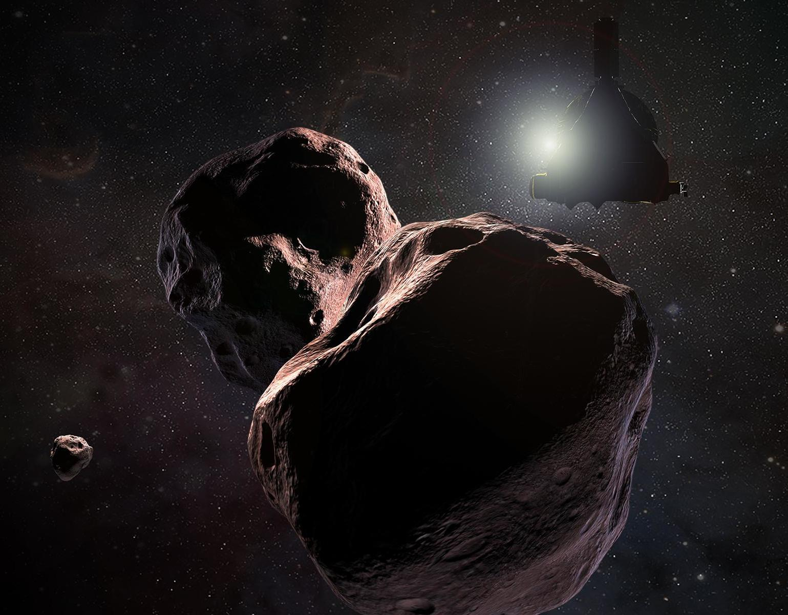 PIA22190: New Horizons Encountering 2014 MU69 (Artist's Impression) Artist's impression of NASA's New Horizons spacecraft encountering 2014 MU69, a Kuiper Belt object that orbits one billion miles (1.6 billion kilometers) beyond Pluto, on Jan. 1, 2019. The Johns Hopkins University Applied Physics Laboratory in Laurel, Maryland, designed, built, and operates the New Horizons spacecraft, and manages the mission for NASA's Science Mission Directorate. The Southwest Research Institute, based in San Antonio, leads the science team, payload operations and encounter science planning. New Horizons is part of the New Frontiers Program managed by NASA's Marshall Space Flight Center in Huntsville, Alabama.